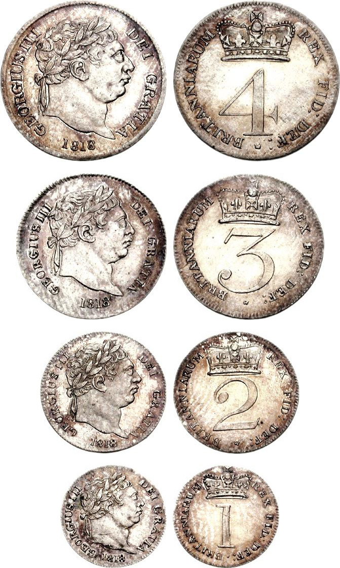 HANOVER. George III of the United Kingdom. 1760-1820. Maundy set. Dated 1818. Includes 1d, 2d, 3d, 4d. SCBC 3792. All coins EF or better, with attractive light iridescent toning.